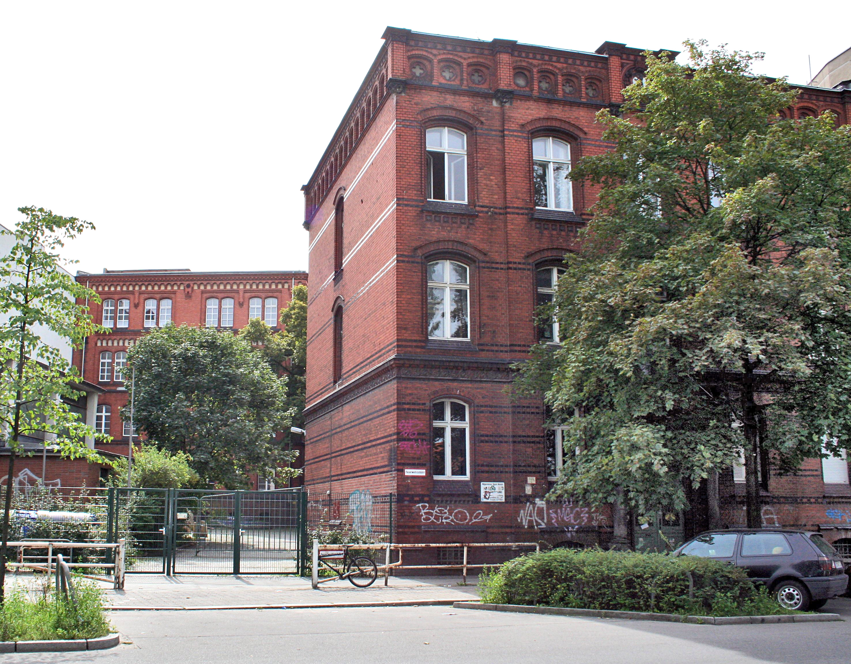 Main entrance to the James-Krüss primary school in Berlin, Moabit. Left: School building. Right: Former residential house of the teachers.